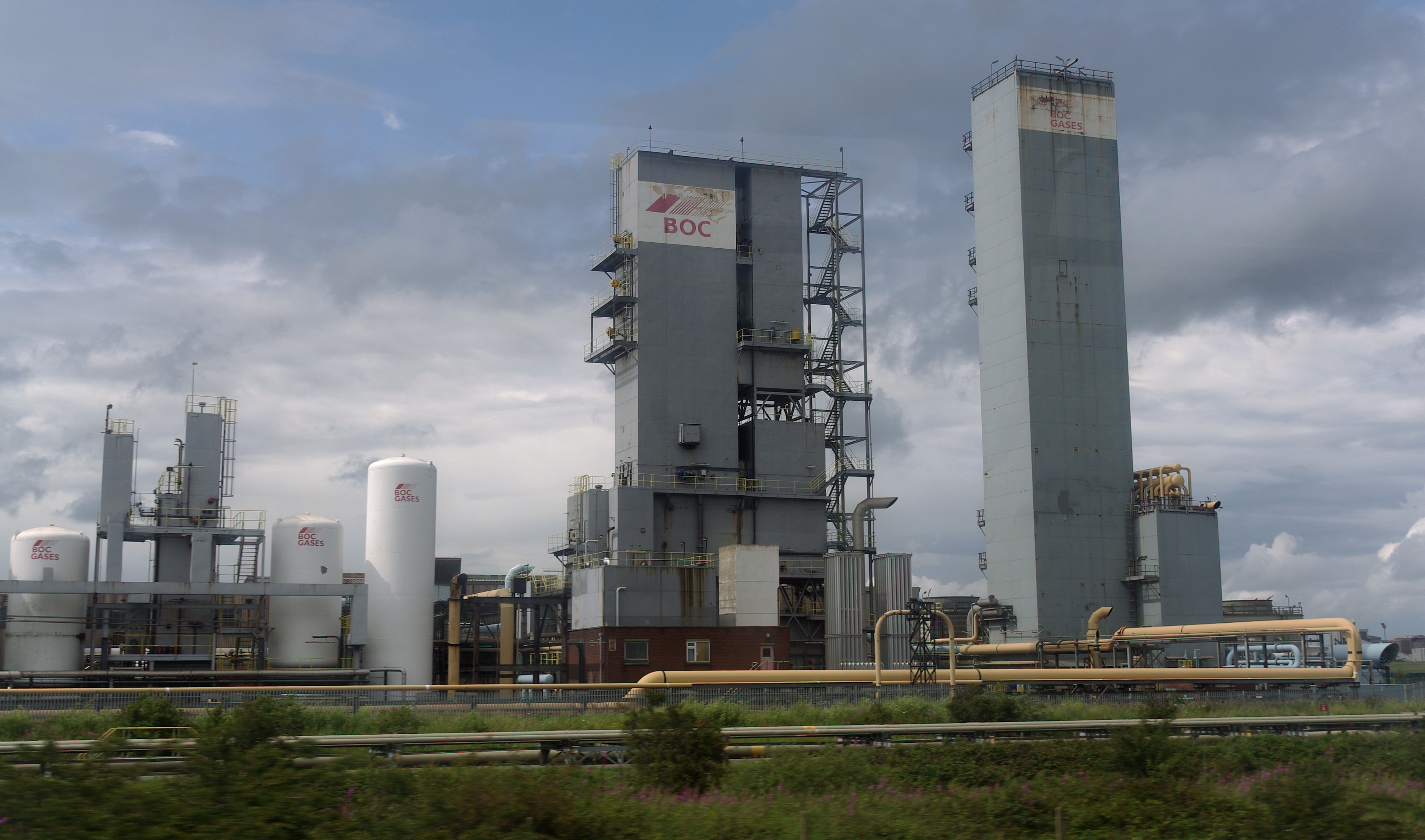 BOC gas refinery by the Tees Valley Line at Redcar.